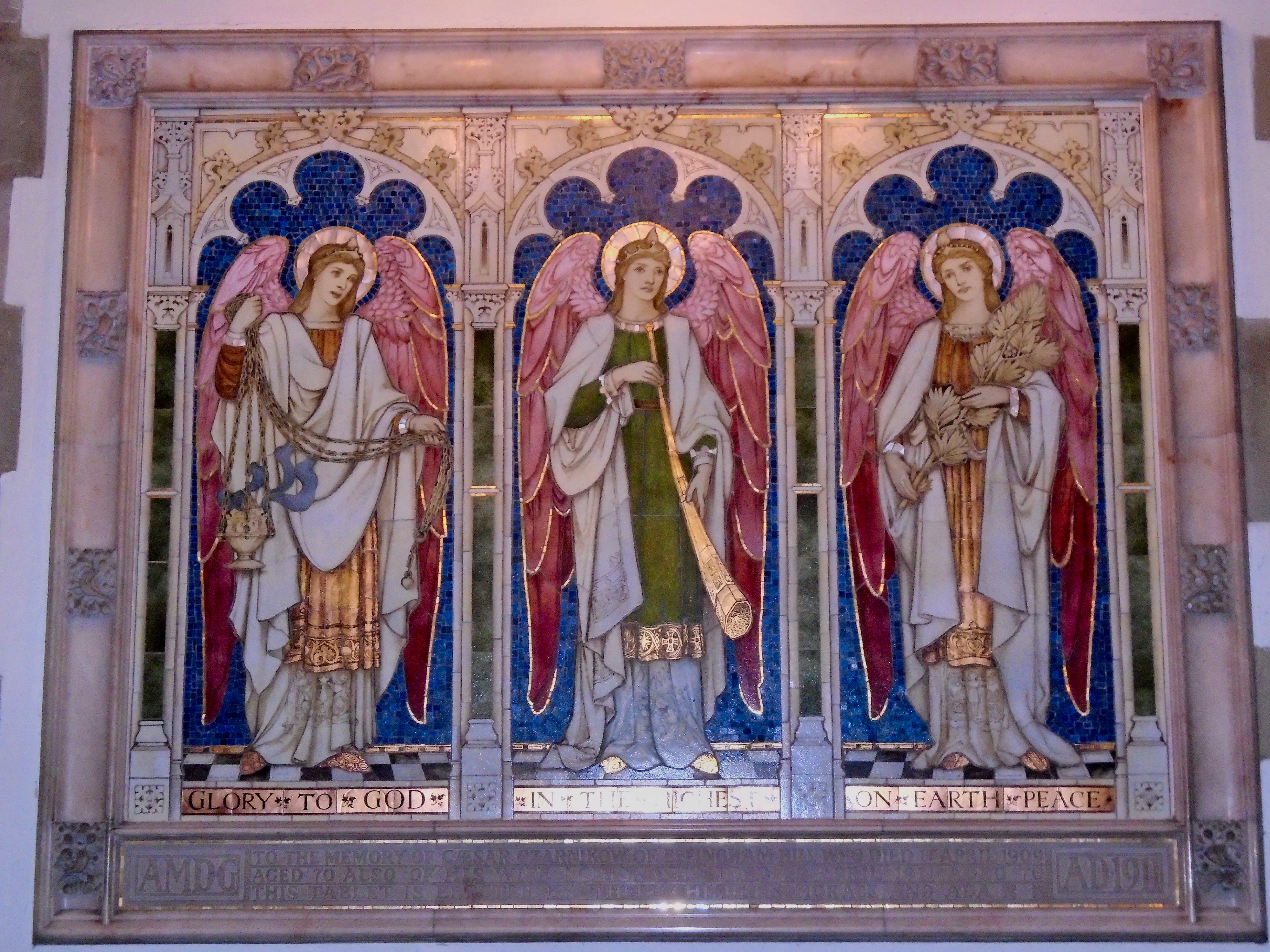 St Lawrence's Church, Effingham, Caesar Czarnikow mosaic. Julius Caesar Czarnikow (1838 – 17 April 1909) was a German-born, London-based sugar broker and investor who lived at Effingham Hill House.